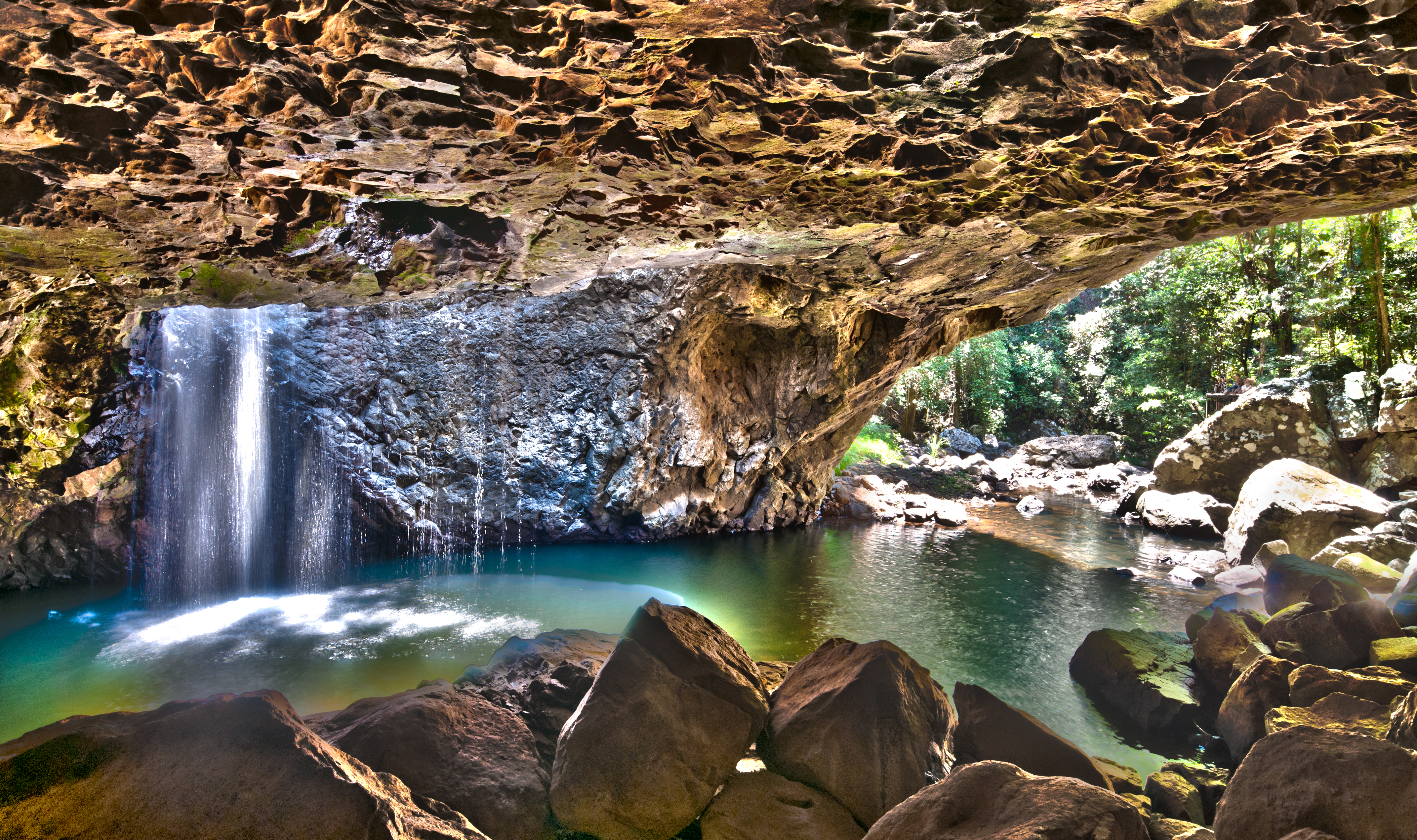 Taken at Sprinkbrook National Park in QLD, Australia.